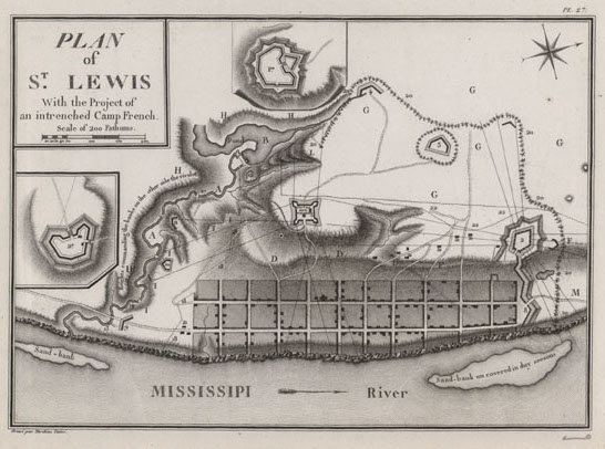 A map depicting the town of St. Louis, Missouri in the 1790s, then part of Spanish Louisiana. Image has been cropped from original.